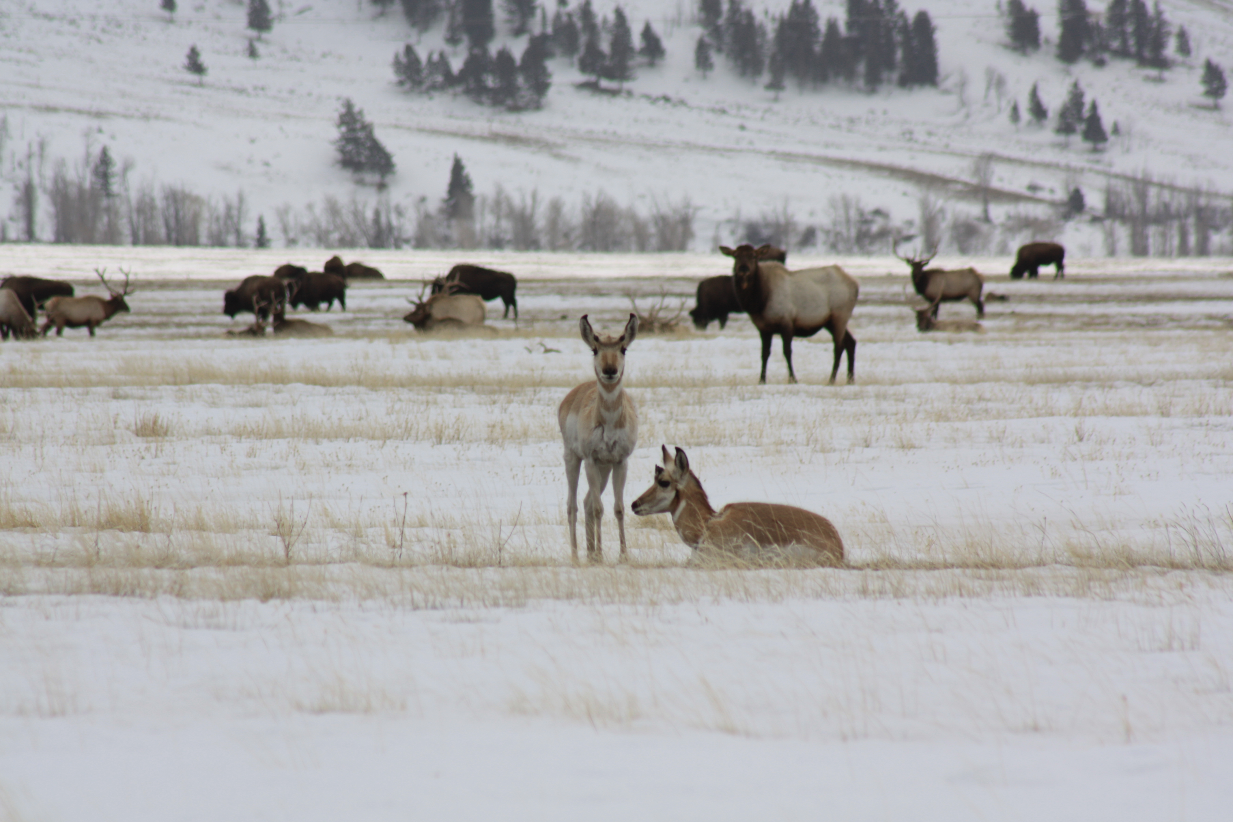 While pronghorns may fare well during summers on the National Elk Refuge, this is not suitable winter habitat for them. They are not a species well-adapted to typcial Jackson Hole winters. If pronghorns don't migrate out of the Jackson Hole valley prior to deep snowfall, their chances of survival greatly decrease. Credit: USFWS / Ann Hough, National Elk Refuge volunteer